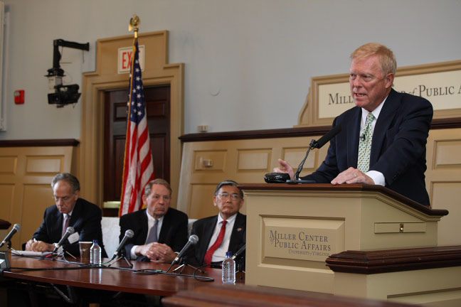 The Miller Center's David R. Goode National Transportation Policy Conference, which led to the publication "Well Within Reach: America's New Transportation Agenda." Held at the Miller Center in Charlottesville, VA. Pictured: Dick Gephardt, Norman Mineta, Samuel Skinner, and Jeffrey Shane.